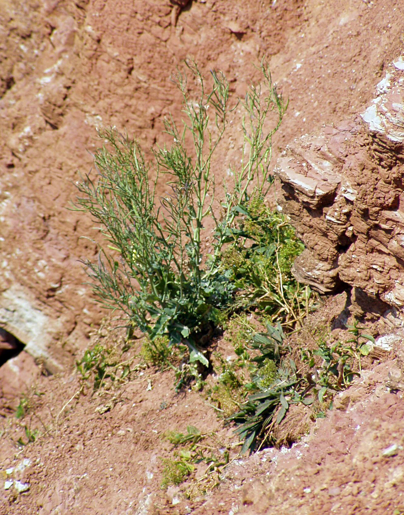 Brassica oleracea, wildtype from Heligoland